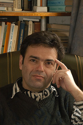 László Márton hungarian writer. Photo by Peter Peti.